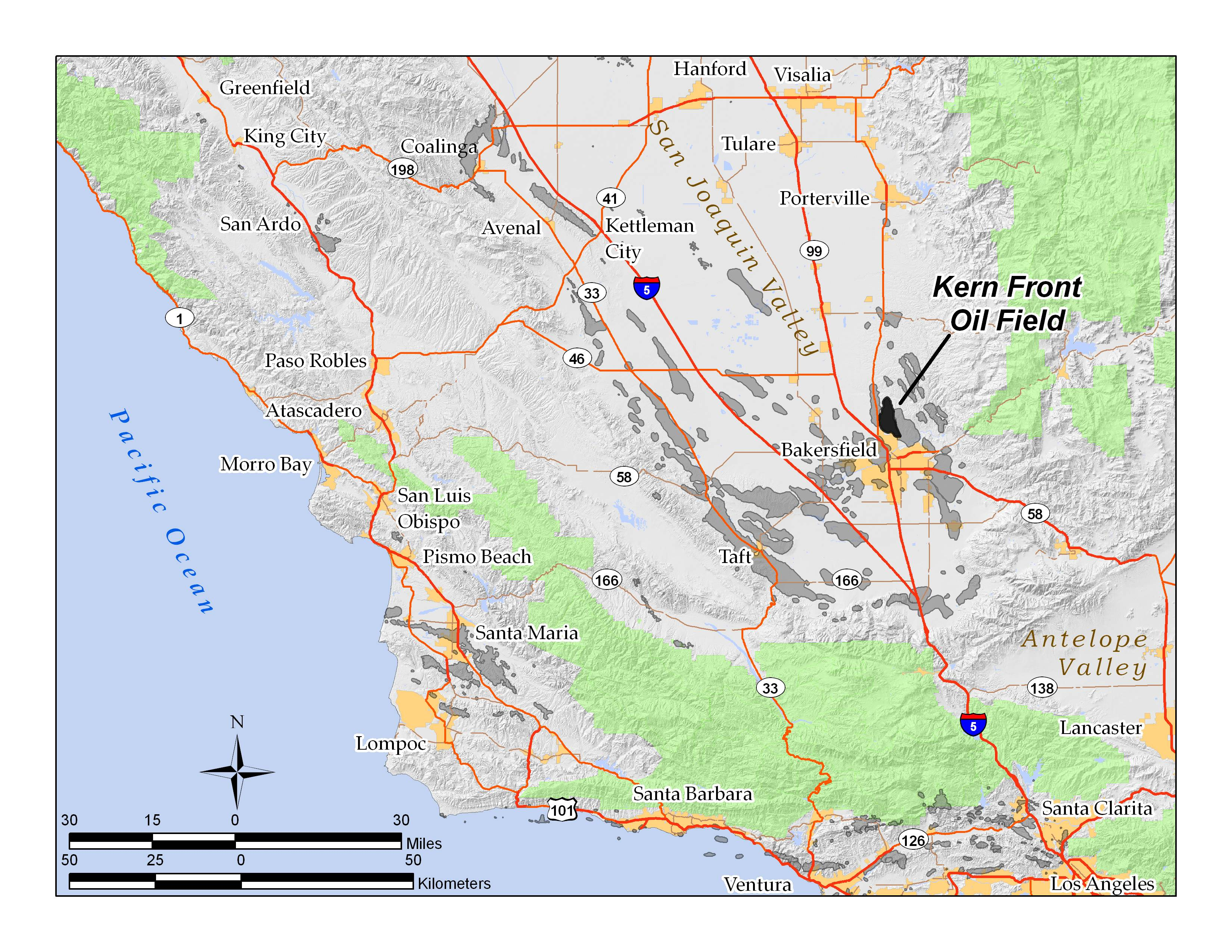 Map of Kern Front Oil Field, by me, in ArcGIS 9.2; all data shown on this map is in the public domain